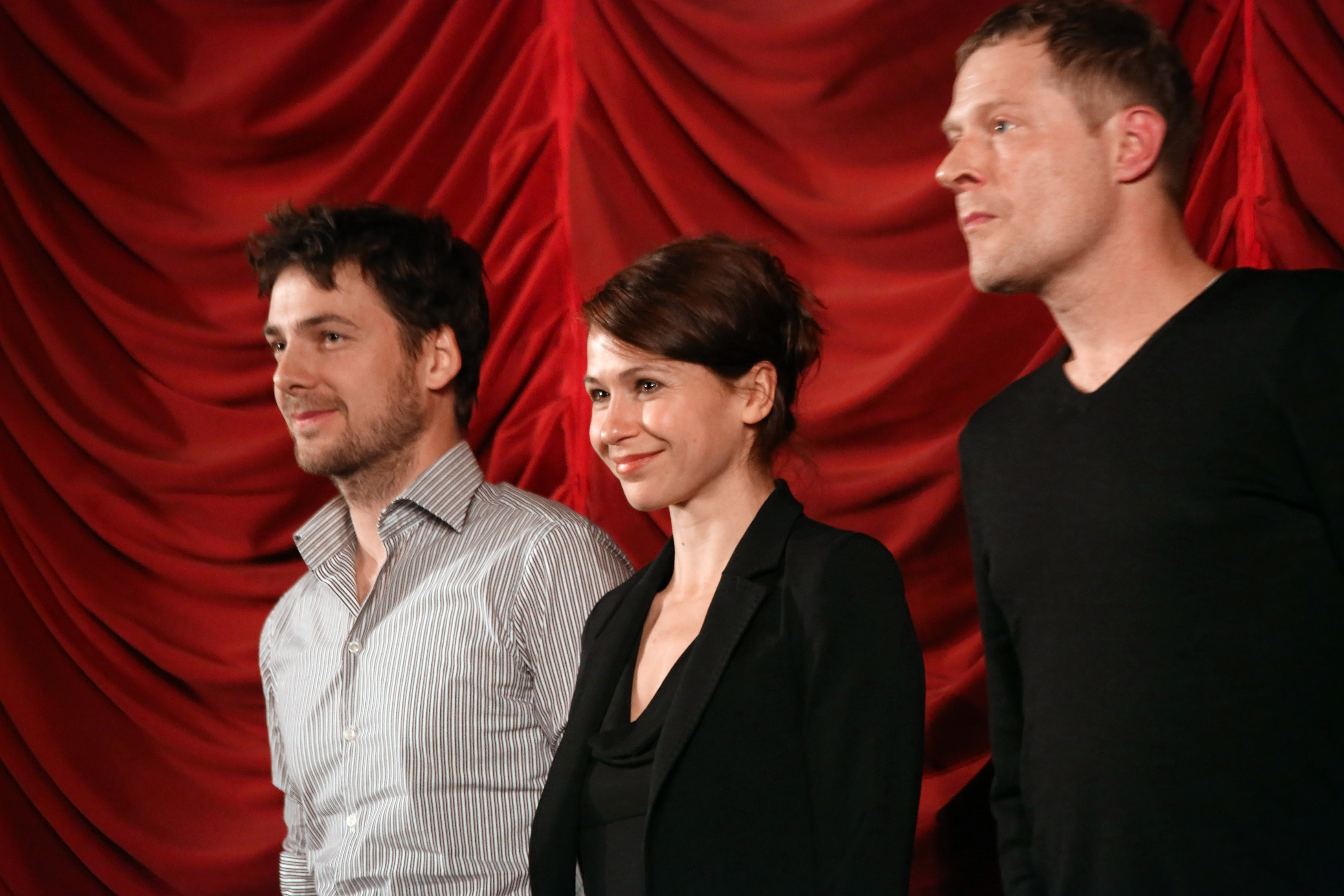 Actors Andrea Wenzl, Andreas Lust and Stefan Pohl at the Austrian premiere of Crossing Borders (Grenzgänger), Vienna International Film Festival 2012, Gartenbaukino.